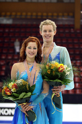 Emily Samuelson & Evan Bates during the ice dancing medal ceremony at the 2008 World Junior Championships.